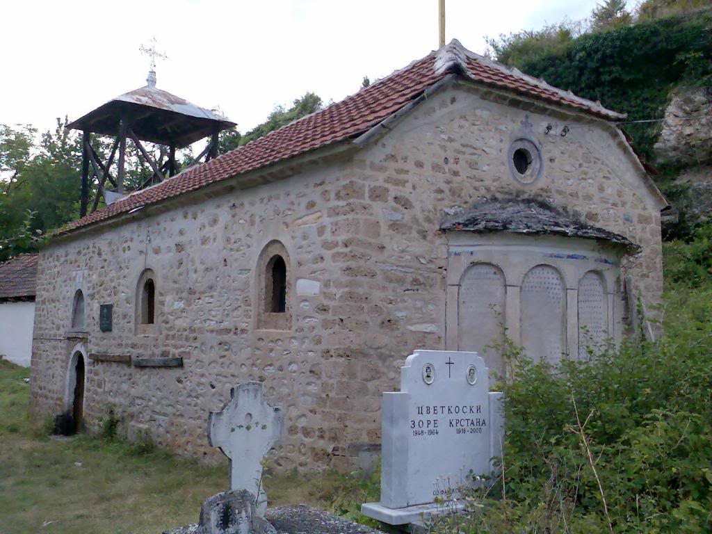 Village of Belica, Poreche region, Republic Macedonia